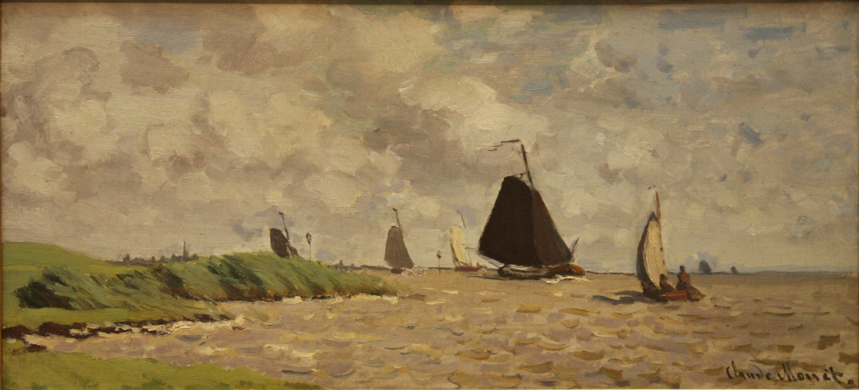 CLAUDE MONET, painting "From the mouth of the Schelde". Undated. National Museum, Stockholm.